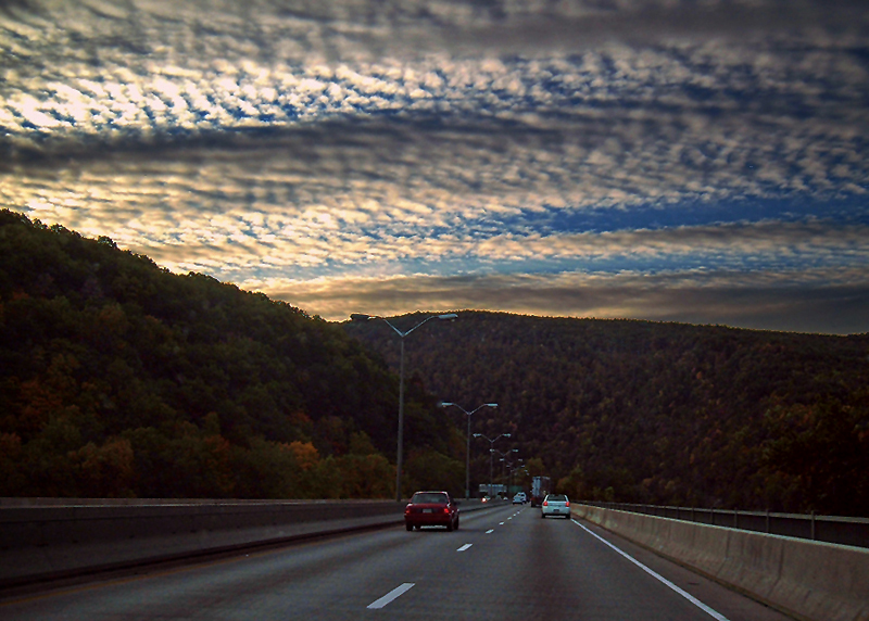 Cirrocumulus clouds, Interstate 80 East, Delaware Water Gap, shortly after dawn.